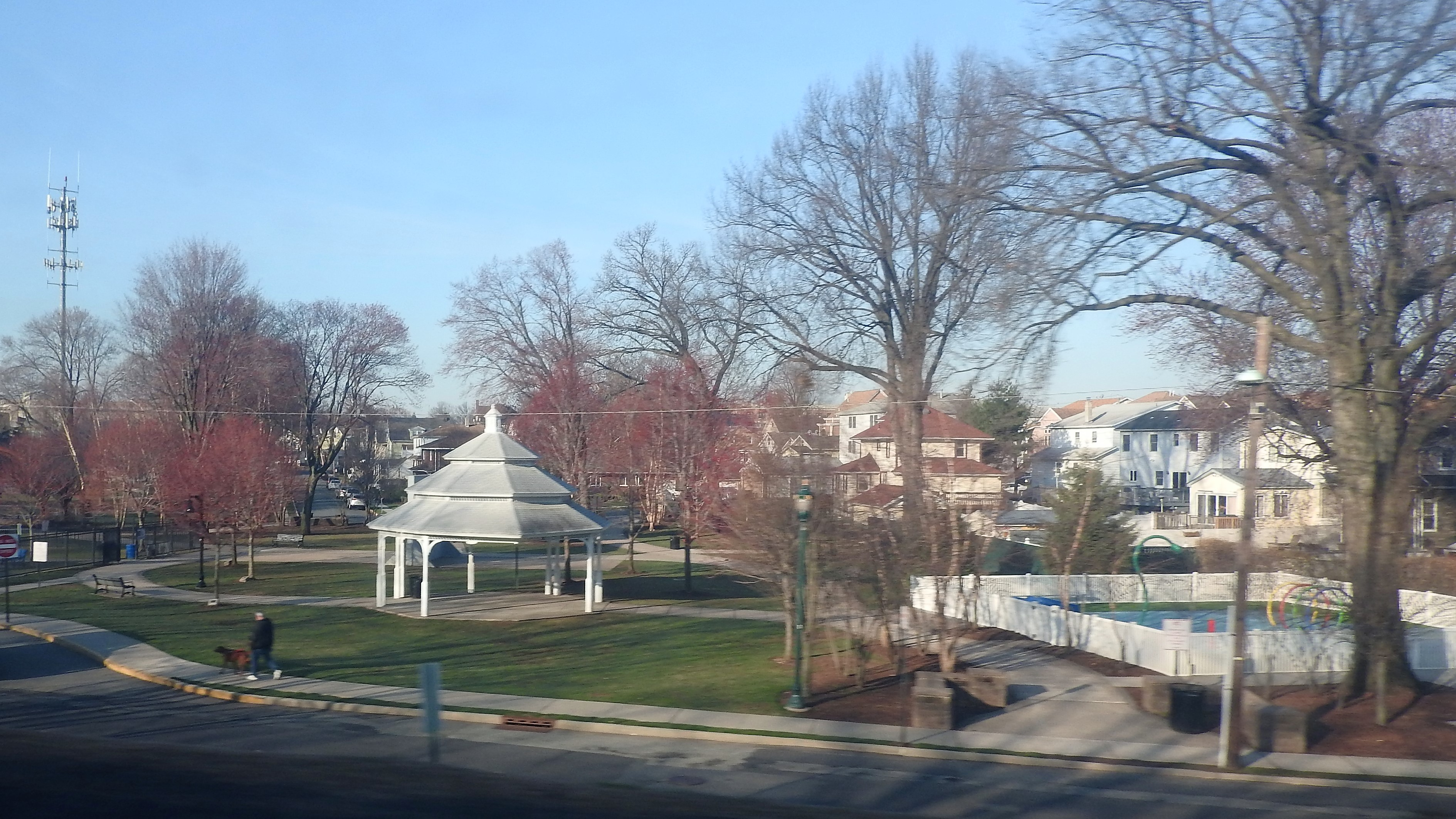 Looking southwest from a northbound train on a sunny morning.